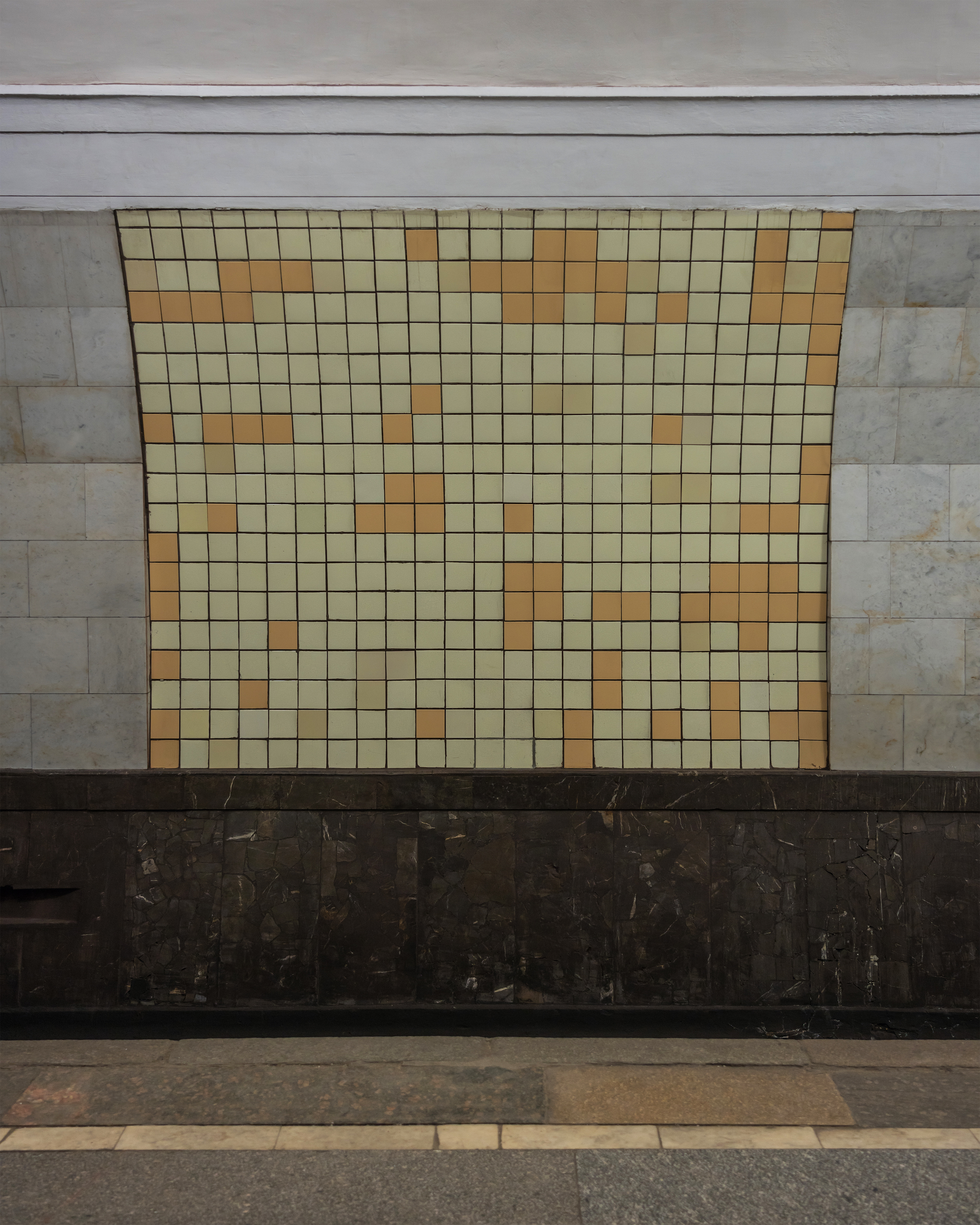 Okhotny Ryad metro station in Moscow